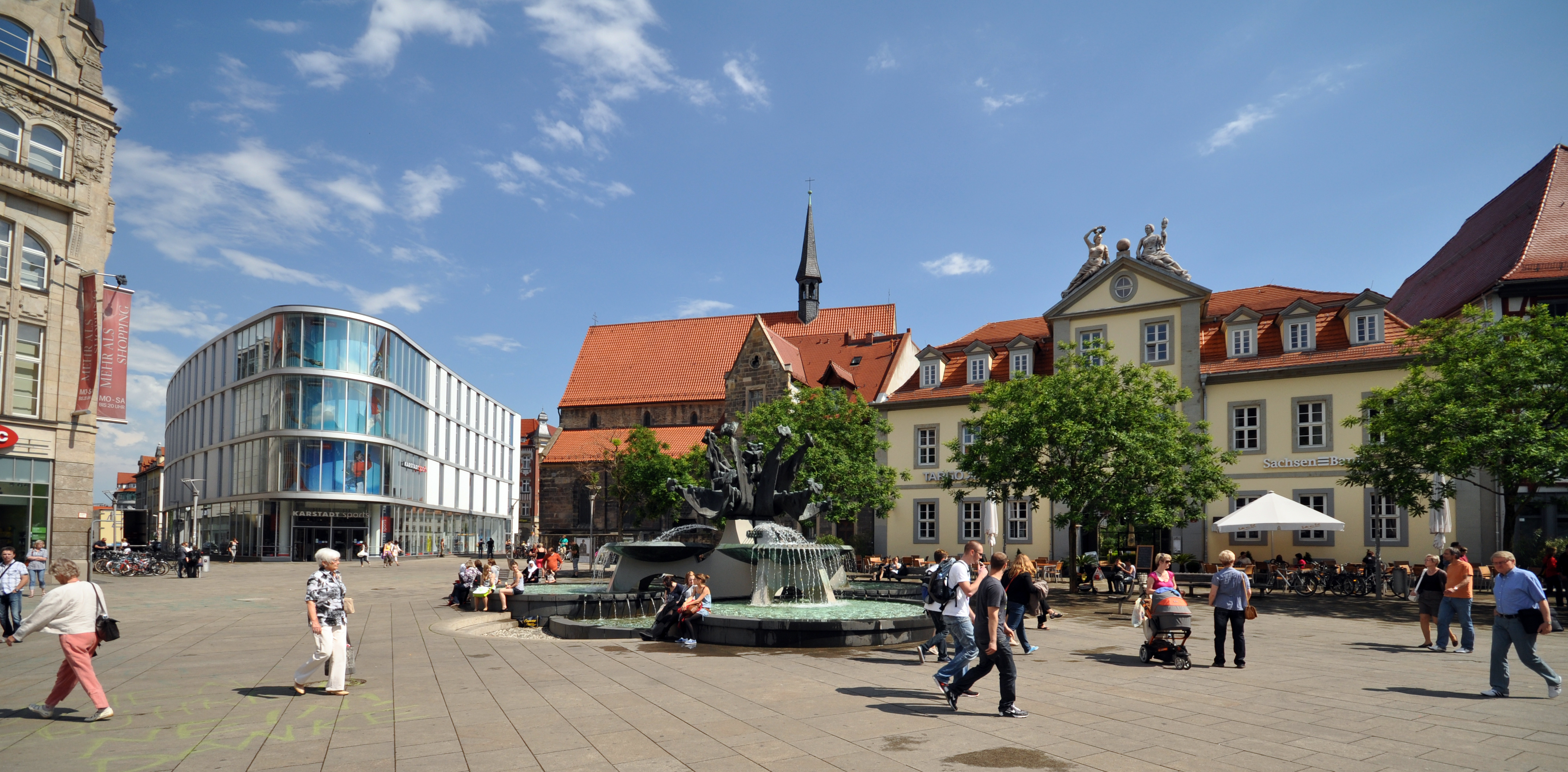 Erfurt (View to the Ursulinenkloster with the Neuer Angerbrunnen in the foreground)